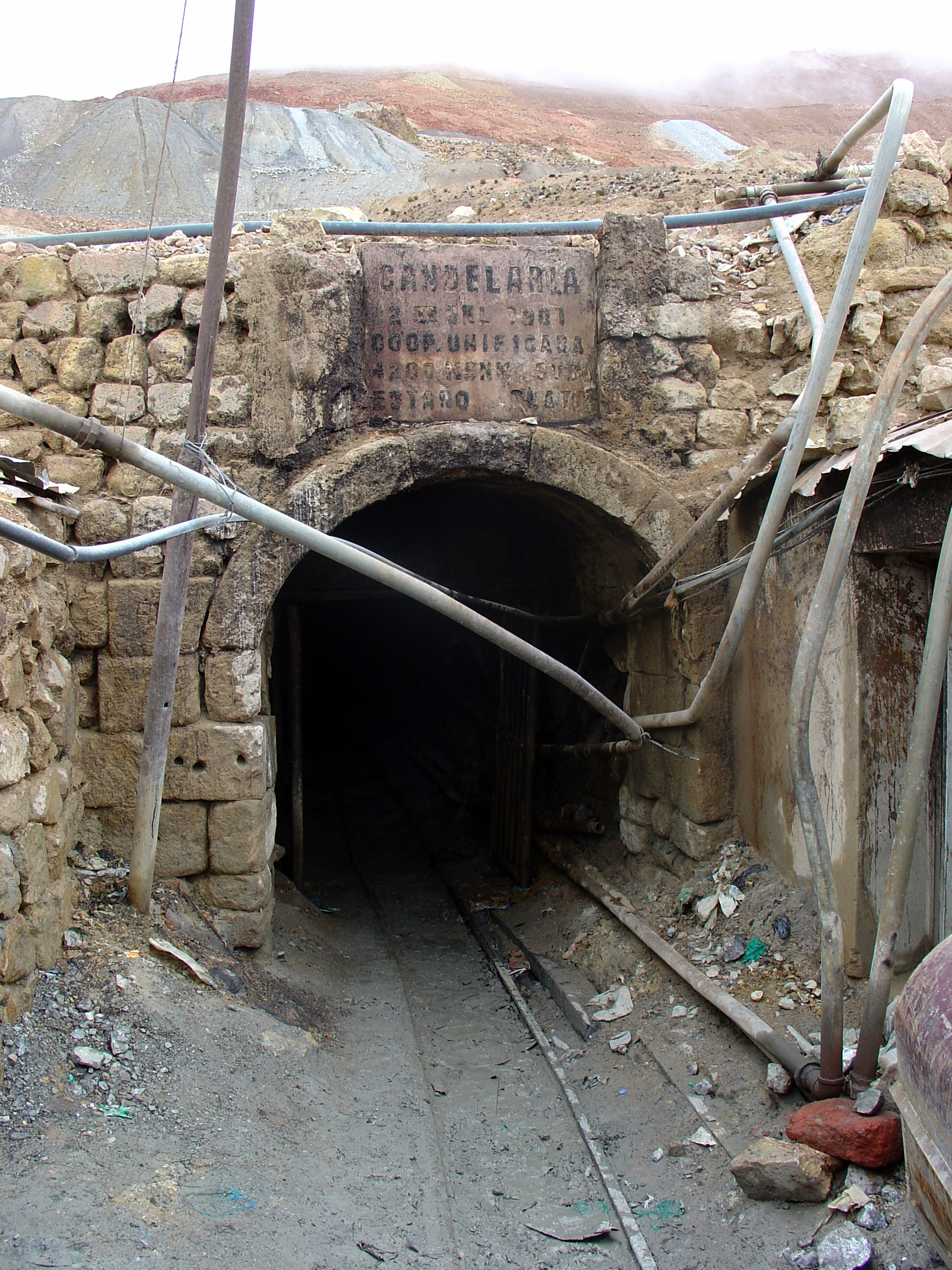 Please, have this description accessible to all by translating it in different languages.